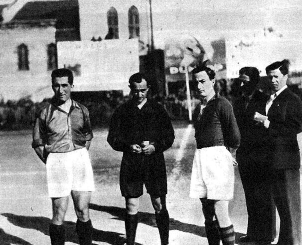 A view from the match between Galatasaray and Fenerbahçe in 14 May 1926. The player on the left is Nihat (Bekdik) of Galatasaray, and the player on the right is Zeki Rıza (Sporel) of Fenerbahçe.